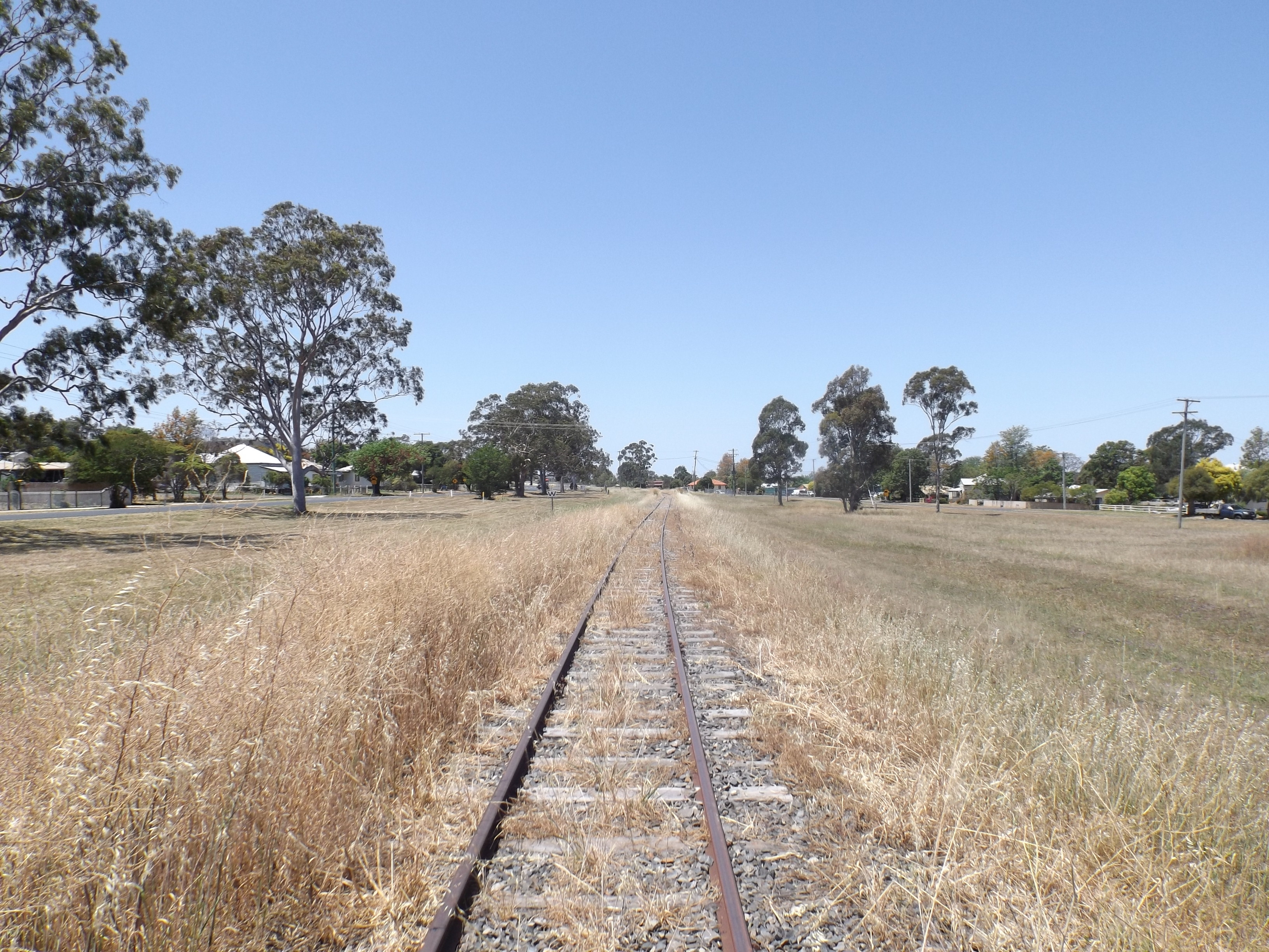 Photo of Millmerran railway line at Southbrook, Queensland, Australia. View is facing the east.